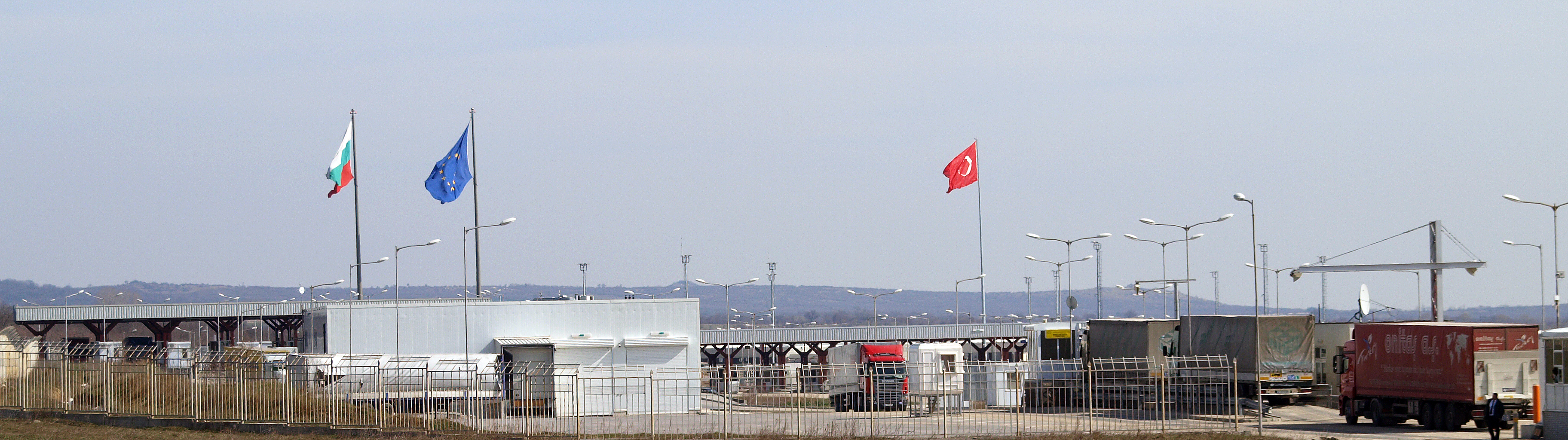 Lesovo-Hamzabeyli Border Checkpoint between Bulgaria and Turkey